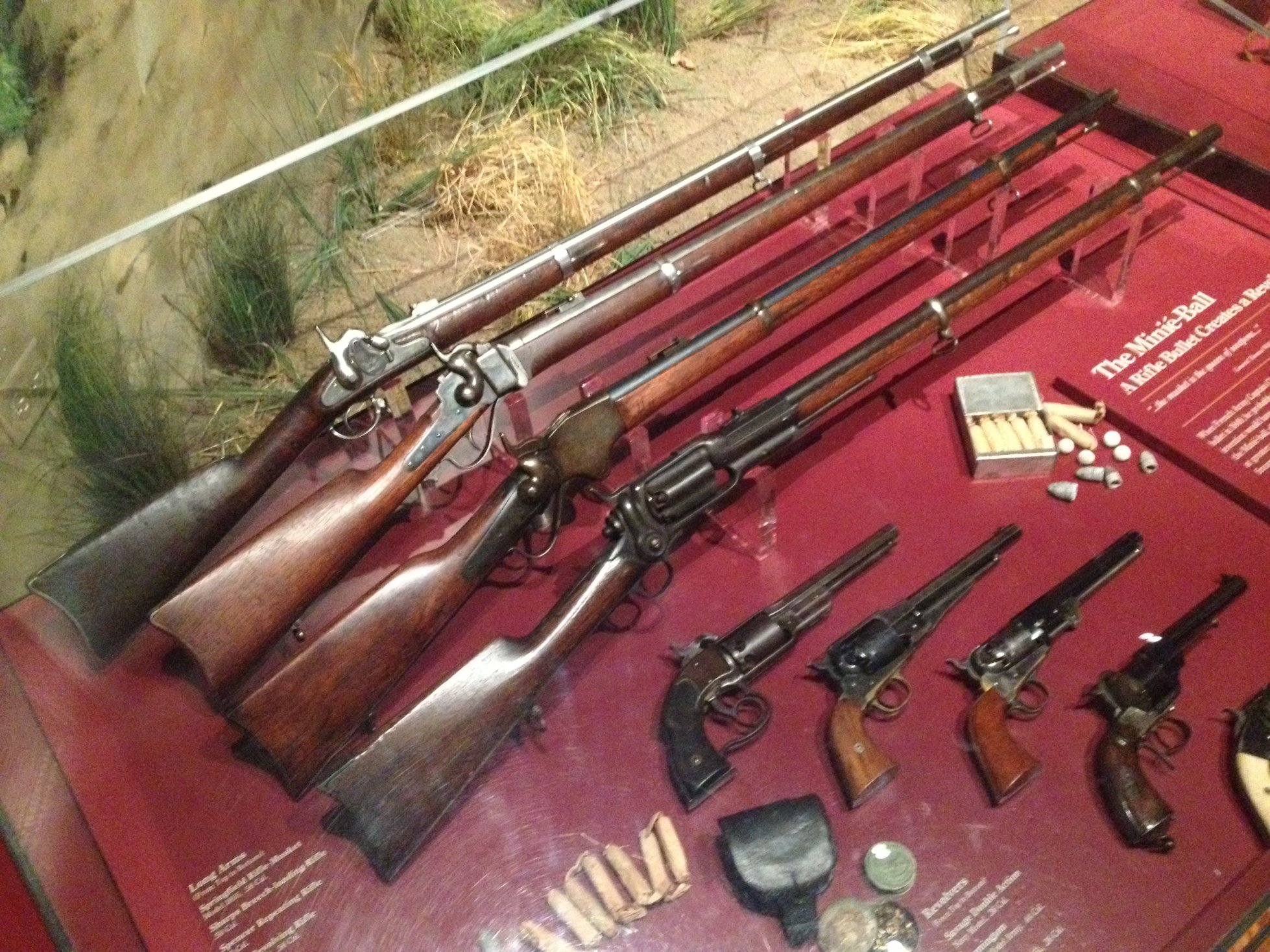 Weapons of war : Civil War Era Rifles and Pistols